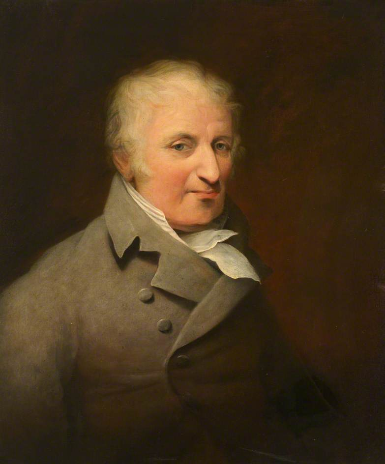 Portrait of Charles Lucas, student, professor and third Principal of the Royal Academy of Music. English School, c.1840. Oil on canvas. Bust length, wearing a grey jacket and white stock. Before a dark background. Original gilded frame.